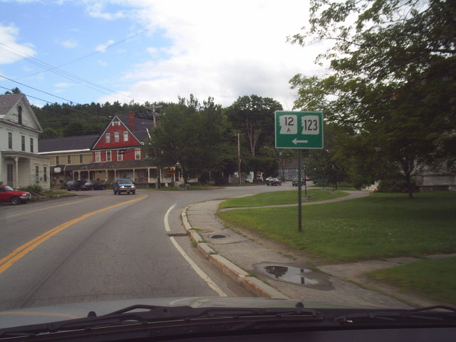 Signs along the concurrency of New Hampshire Routes 12A and 123.